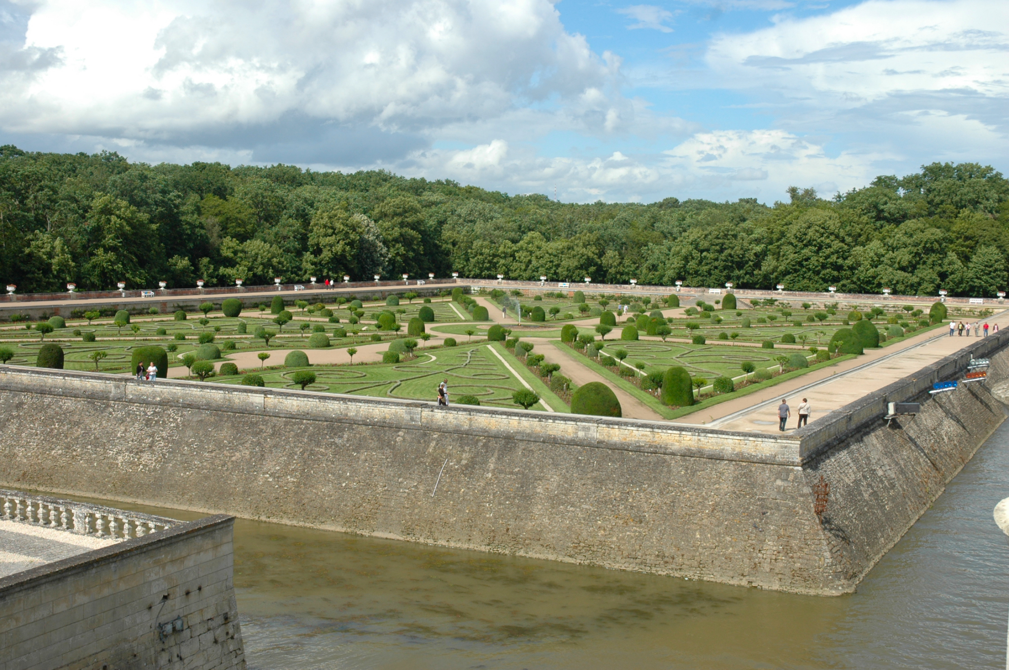 Château de Chenonceau, Diane de Poitiers' garden